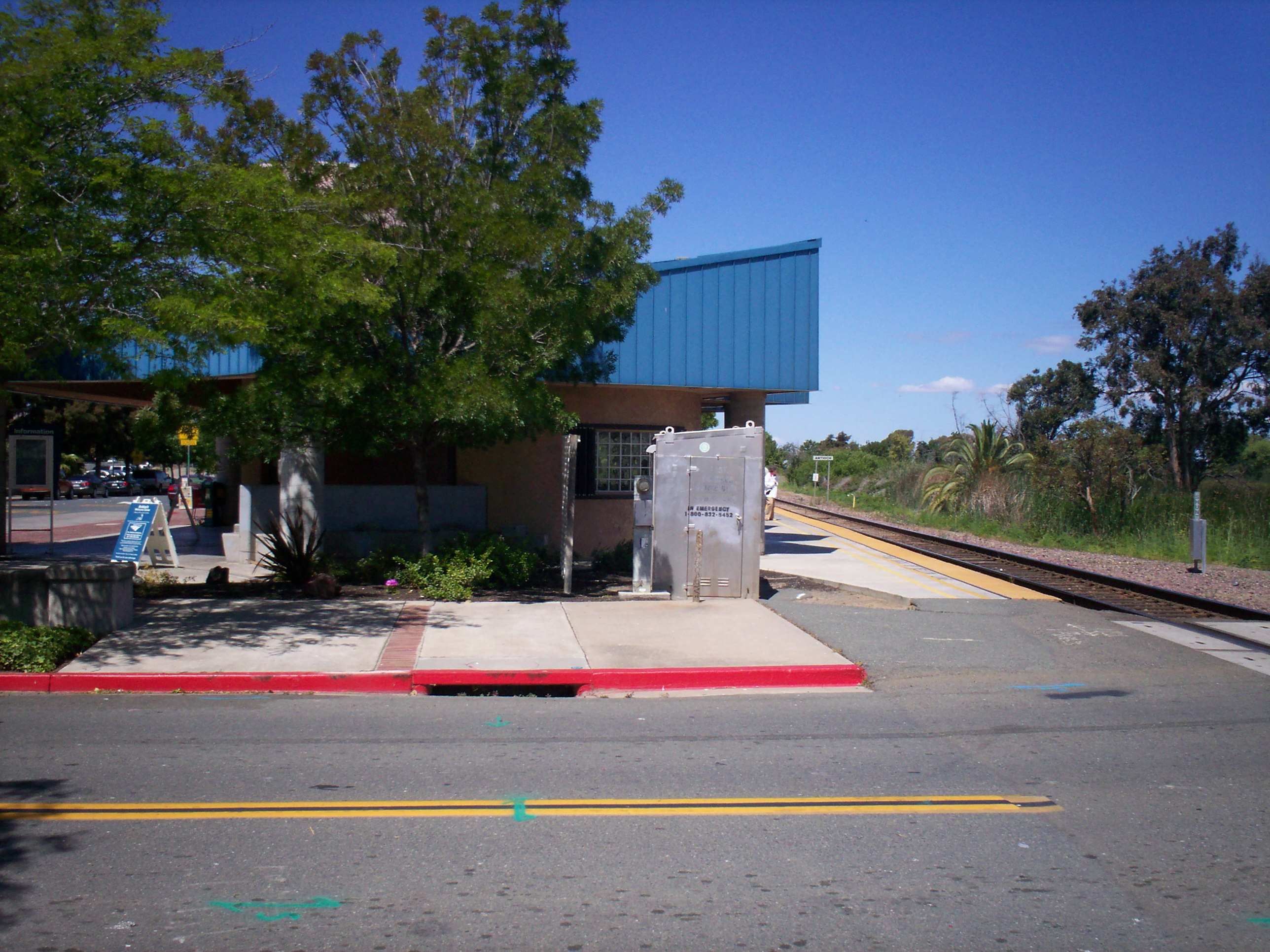 View of Antioch, California Amtrak station.